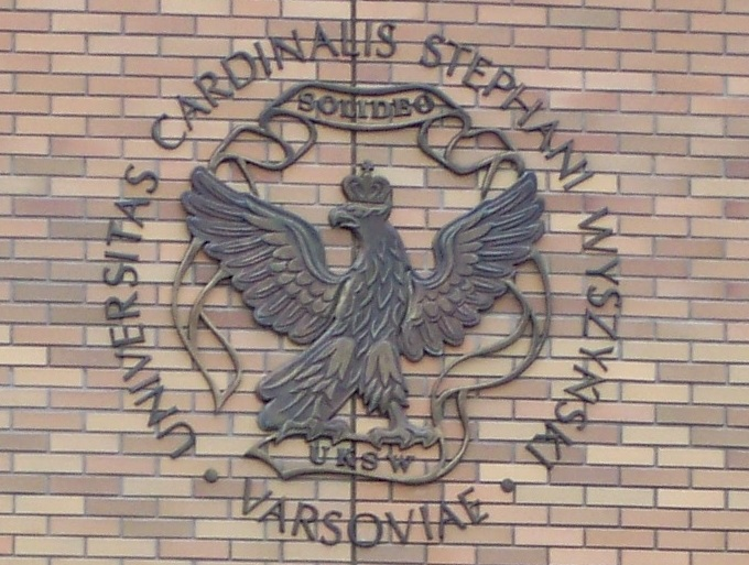 Cardinal Stefan Wyszyński University Logo